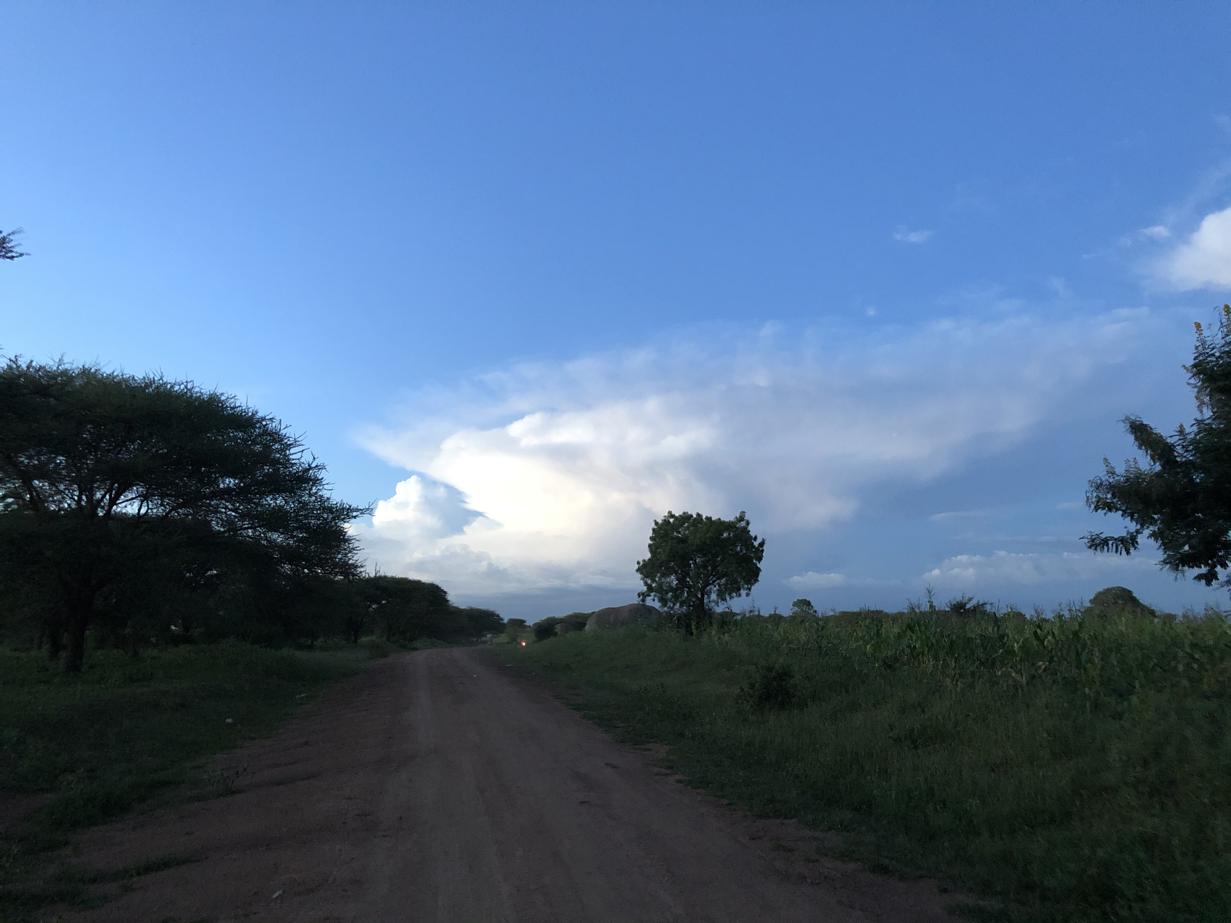 The landscape of Kolandoto, Tanzania right before the sunset. In the distance there’s a light by the motorcycle that went passed me right before the picture was taken. This is an image with the theme "Africa on the Move or Transport" from: Tanzania